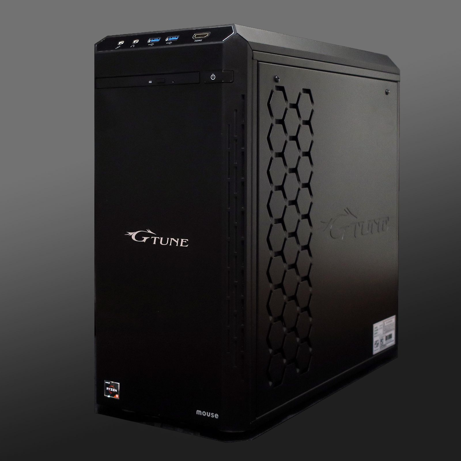 Mouse Computer Gaming PC G-Tune NEXTGEAR-MICRO am550SA2.